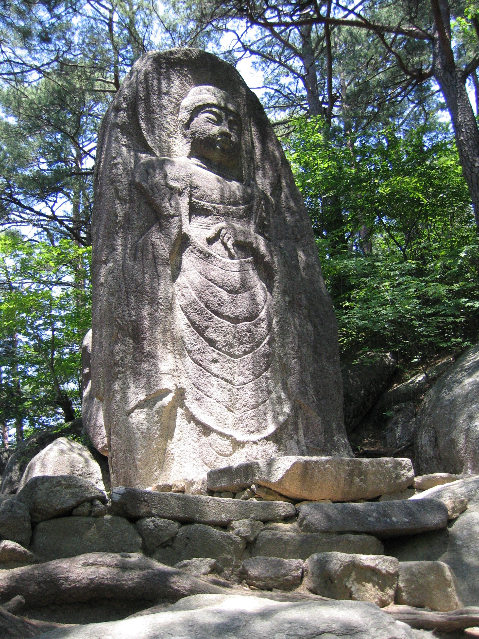 The carved image of the standing Buddha (마애불입상) on Gayasan, South Korea.